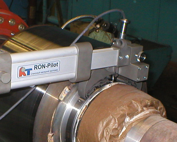 RON-Pilot - tool for roundness measurement